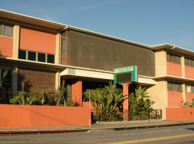 Thomas Starr King Middle School, LAUSD, East Hollywood, Los Angeles.